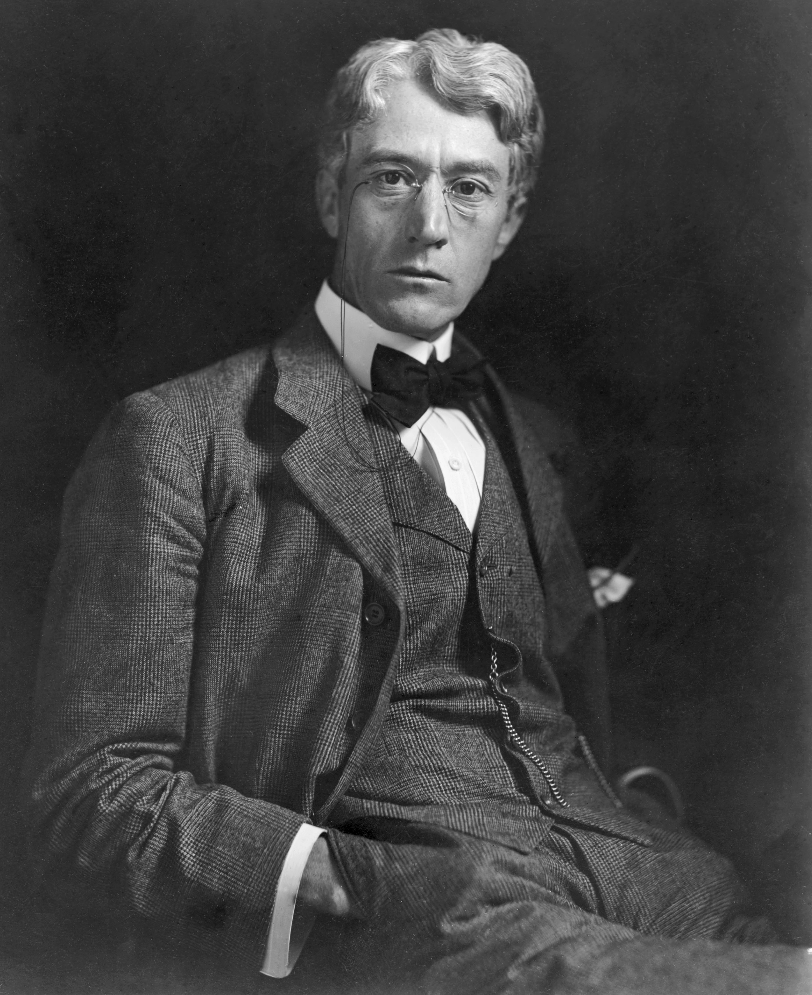 Kenesaw Mountain Landis, c. 1907.